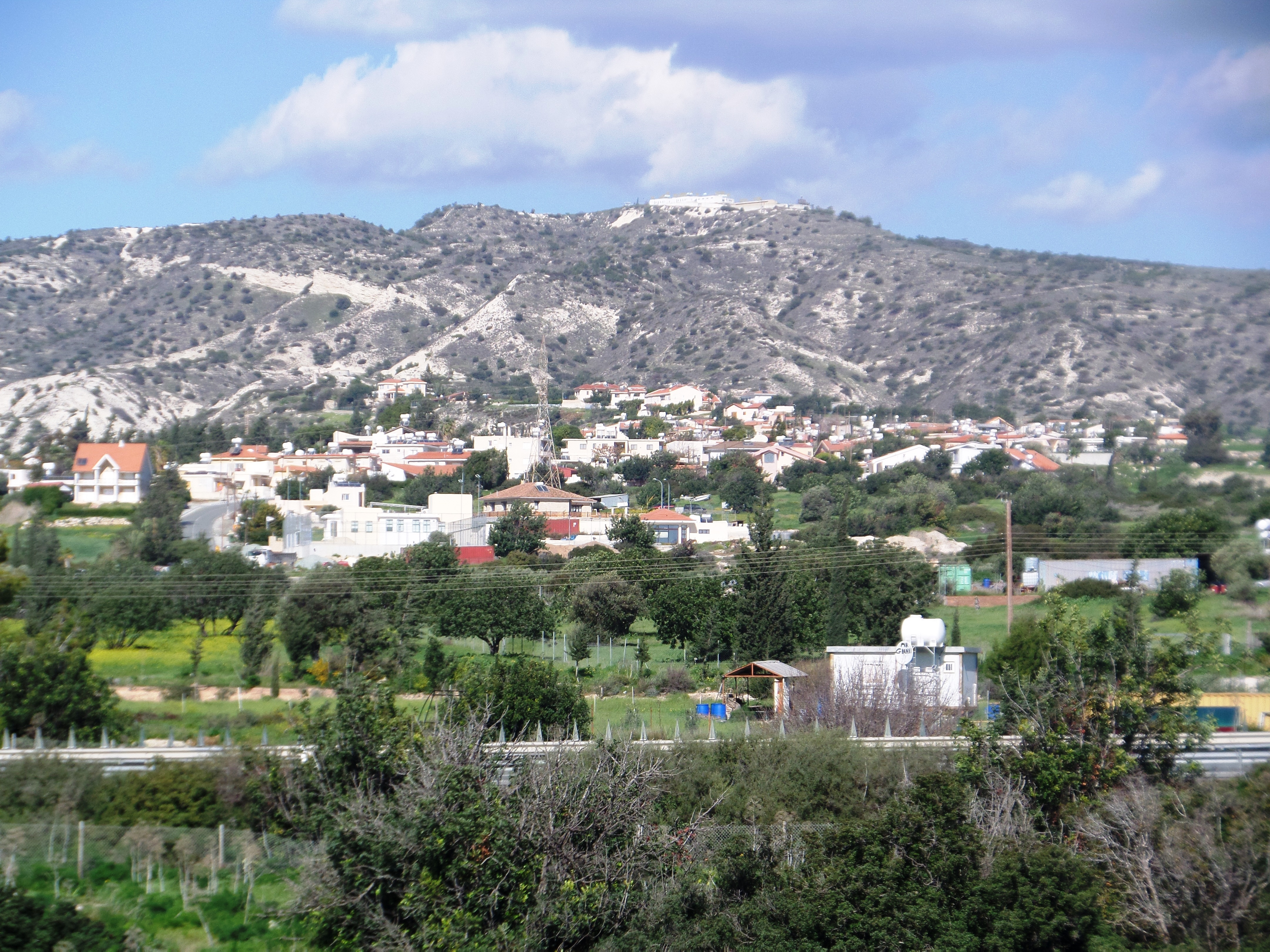 View of Pentakomo.